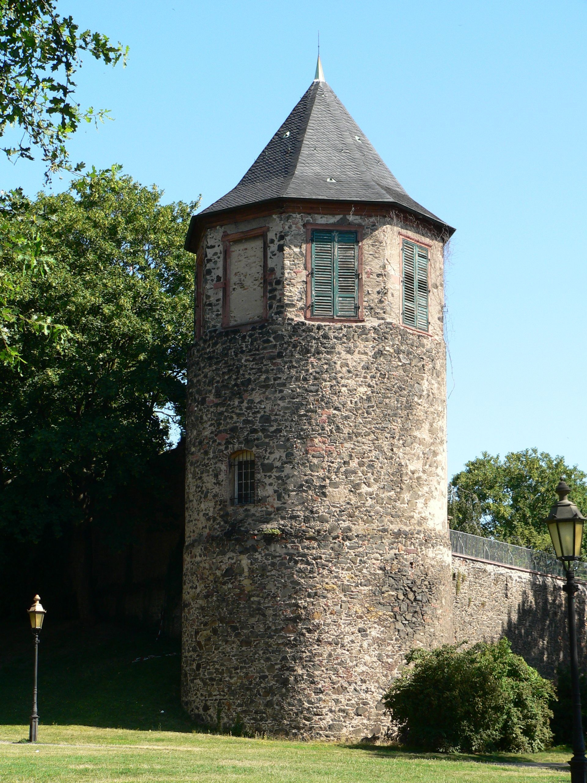 Oxtower, west part of the old defensive wall of Höchst on Main